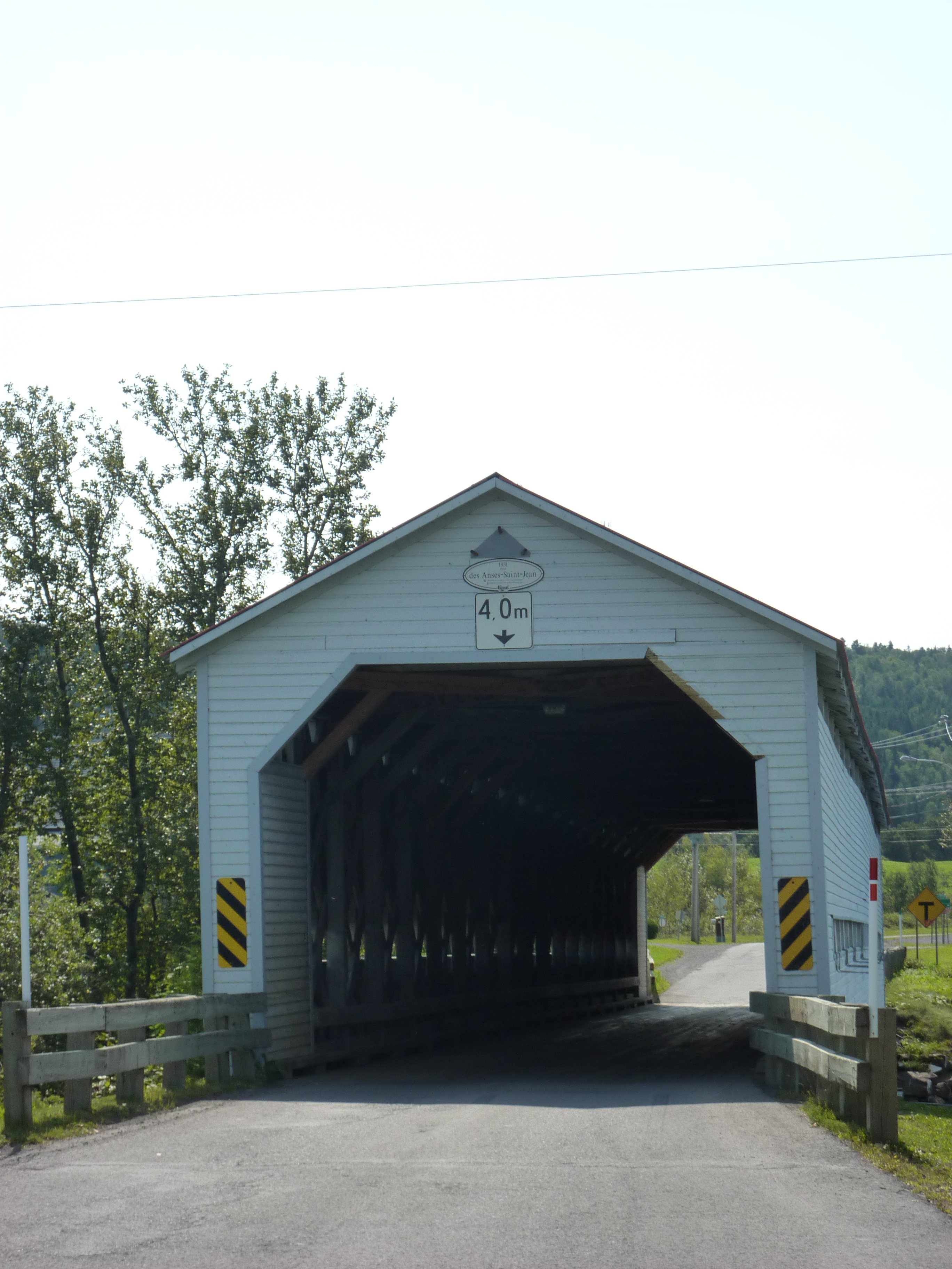 Anses-Saint-Jean Covered Bridge at Amqui, Quebec